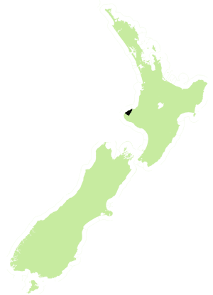 Map indicating the location of New Plymouth electorate (2008 boundaries)